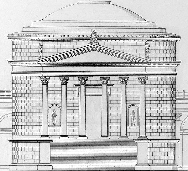 Mausoleum of Romulus elevation Luigi Canina, Gli Edifizi di Roma Antica...